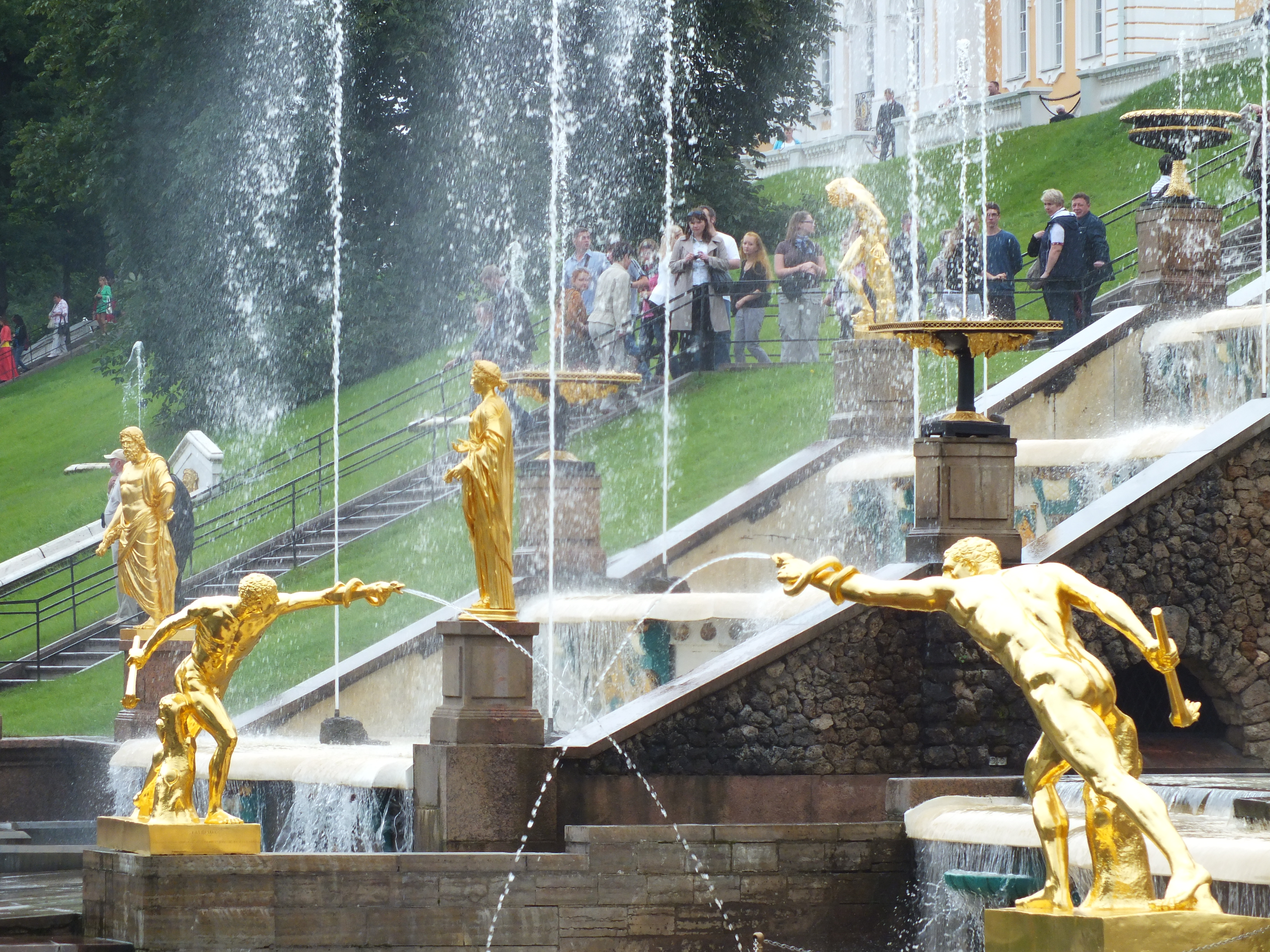 I really like those 2 statues, because they seem to have a link with the water.